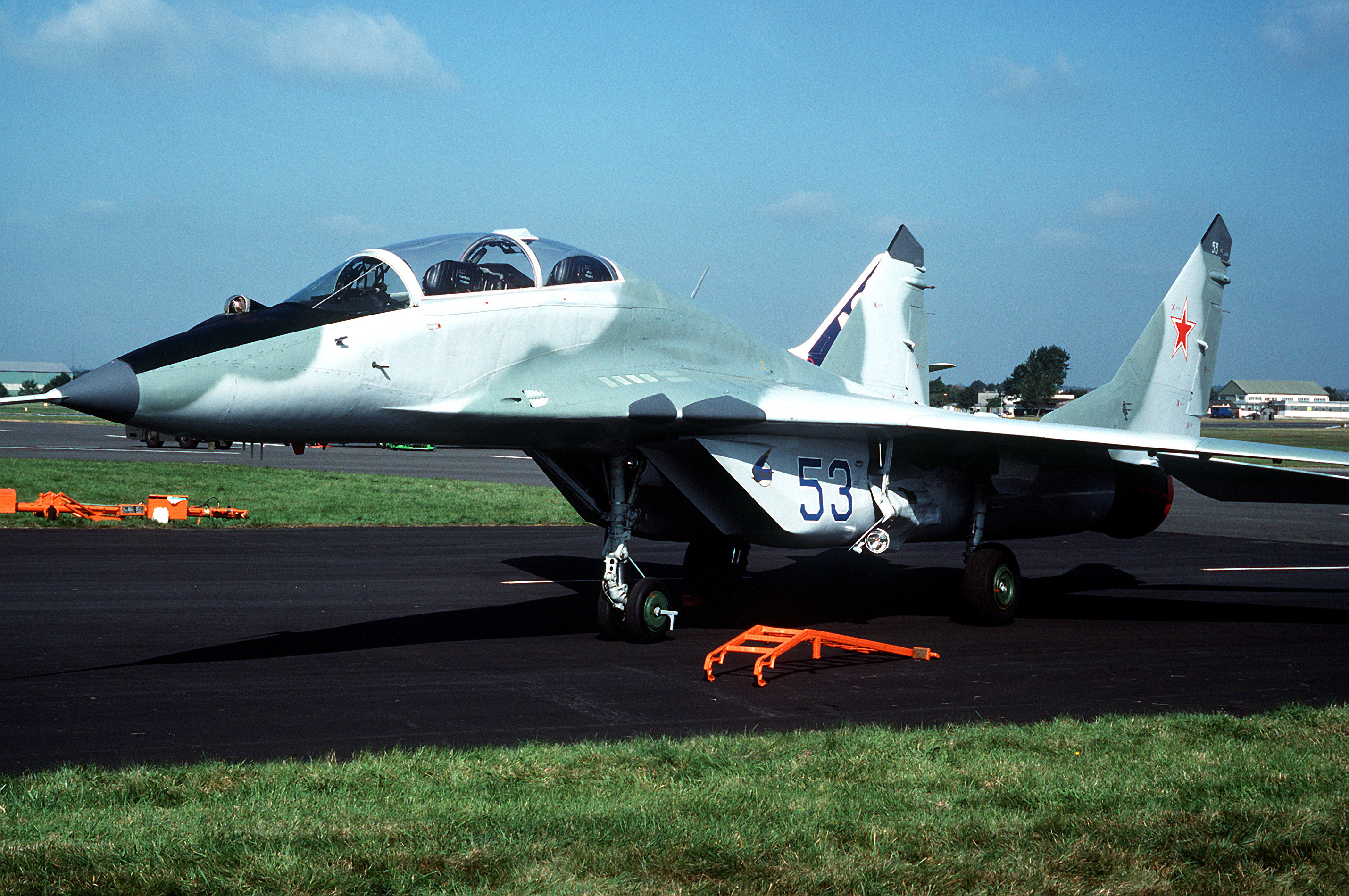 A Soviet Mig-29UB Fulcrum fighter aircraft stands on the runway at the Farnborough Air Show.